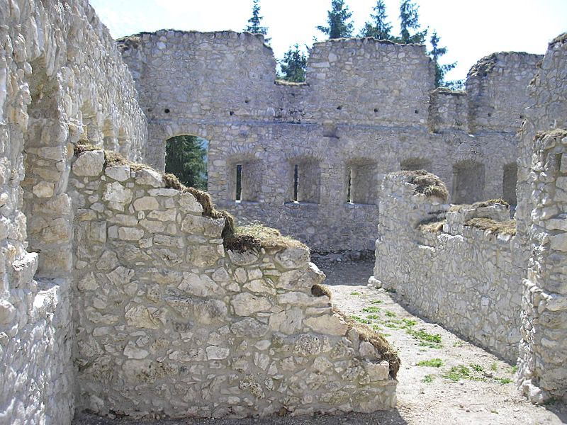 Fort Claudia (Hochschanz), Fortress Ehrenberg in Reutte (Tirol, Austria). Interior.